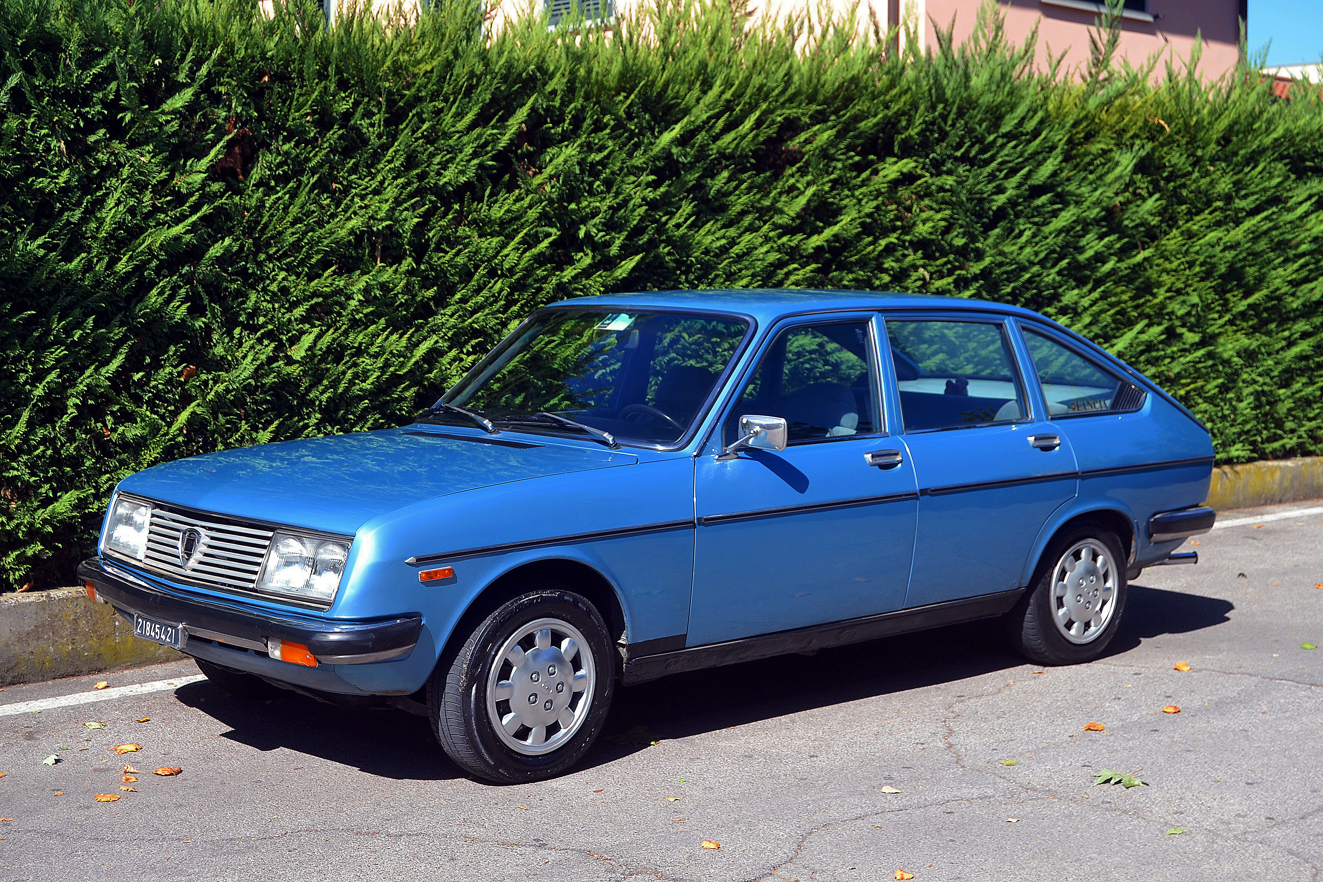 Lancia Beta Berlina